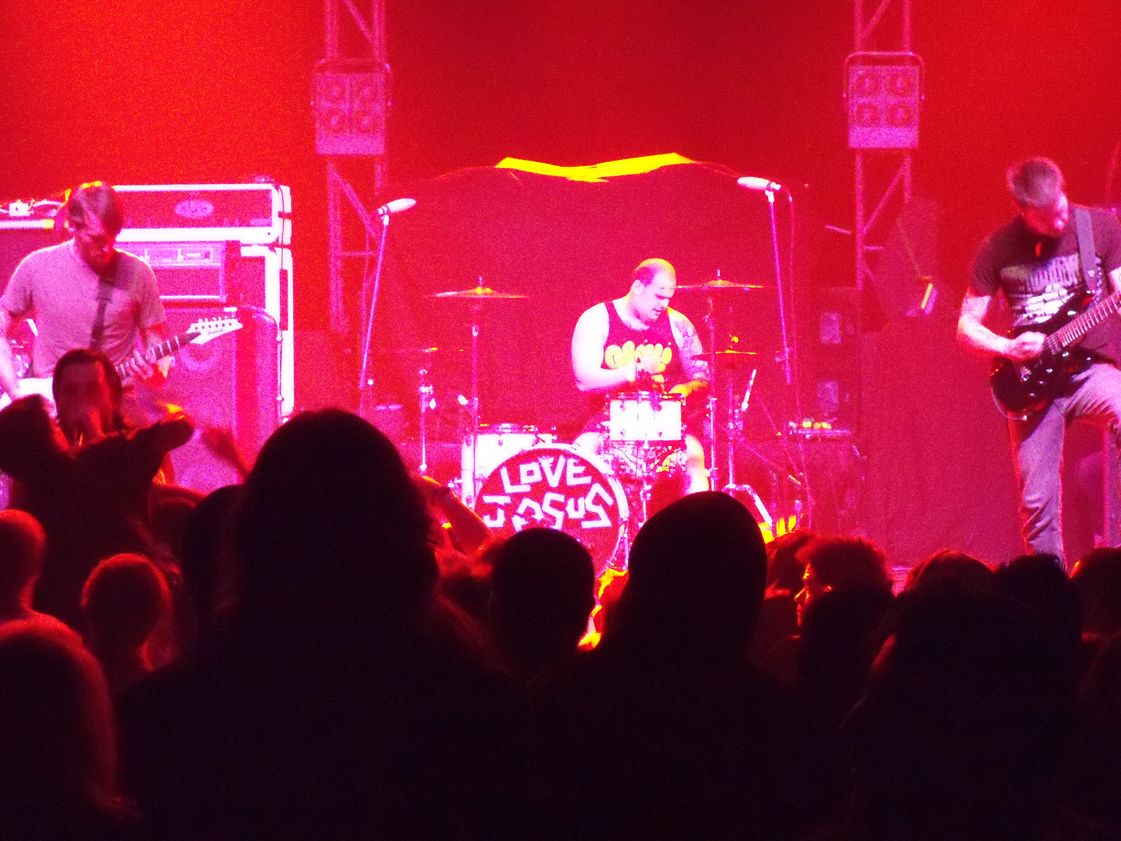 Christian metal band Sleeping Giant performing at 2011's Metalfest in Anaheim, California.